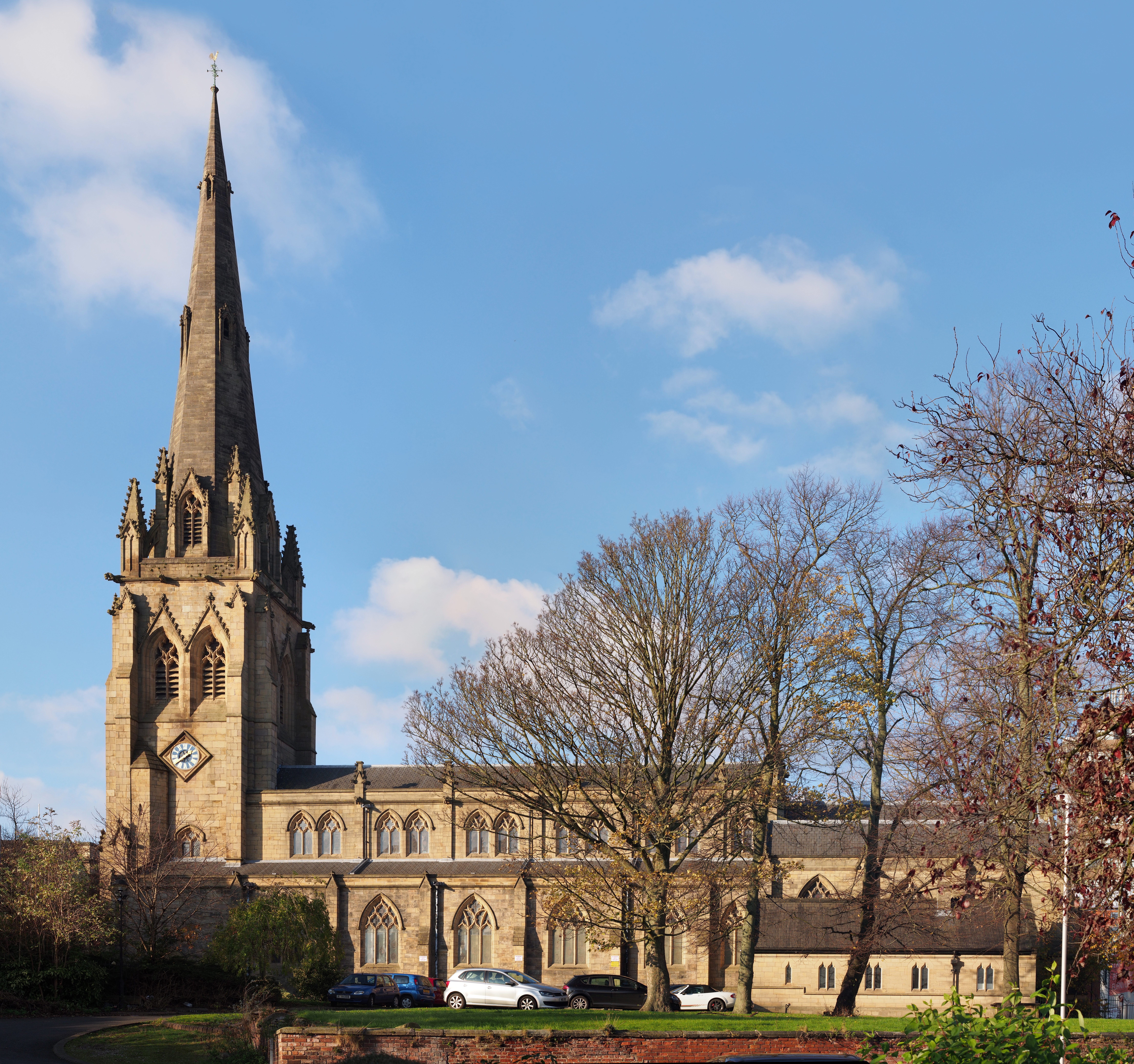 St John's Minster, Preston, Lancashire, seen from the south